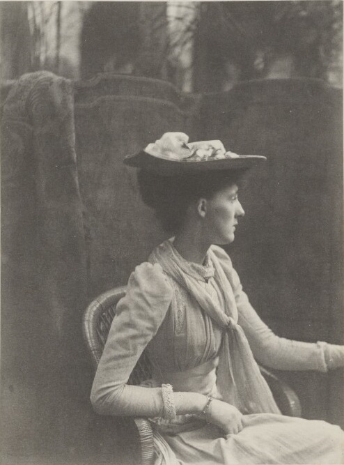 Emmeline Mary Elizabeth ('Nina') Cust (née Welby-Gregory) by Cyril Flower, 1st Baron Battersea platinum print, 1890s